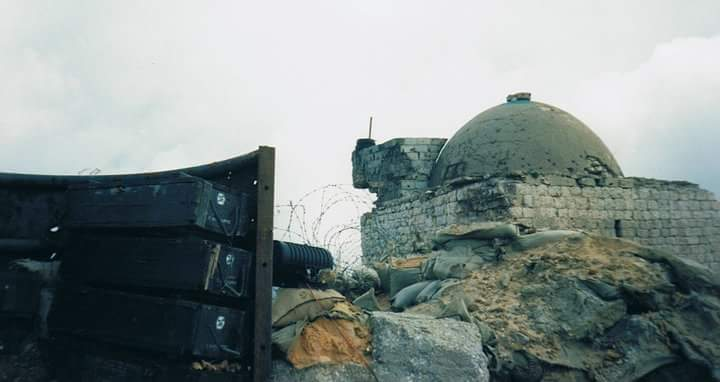 מוצב ס'וגוד ברצועת הביטחון בדרום לבנון בשנת 1998 (התמונה צולמה על ידי שי)